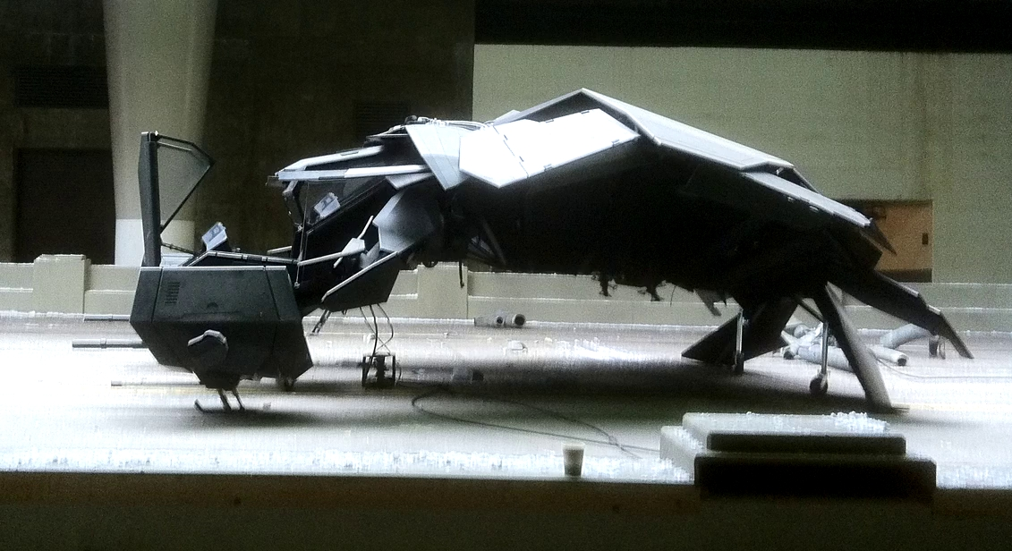 Image of the new aerial vehicle used by Batman in the movie The Dark Knight Rises.